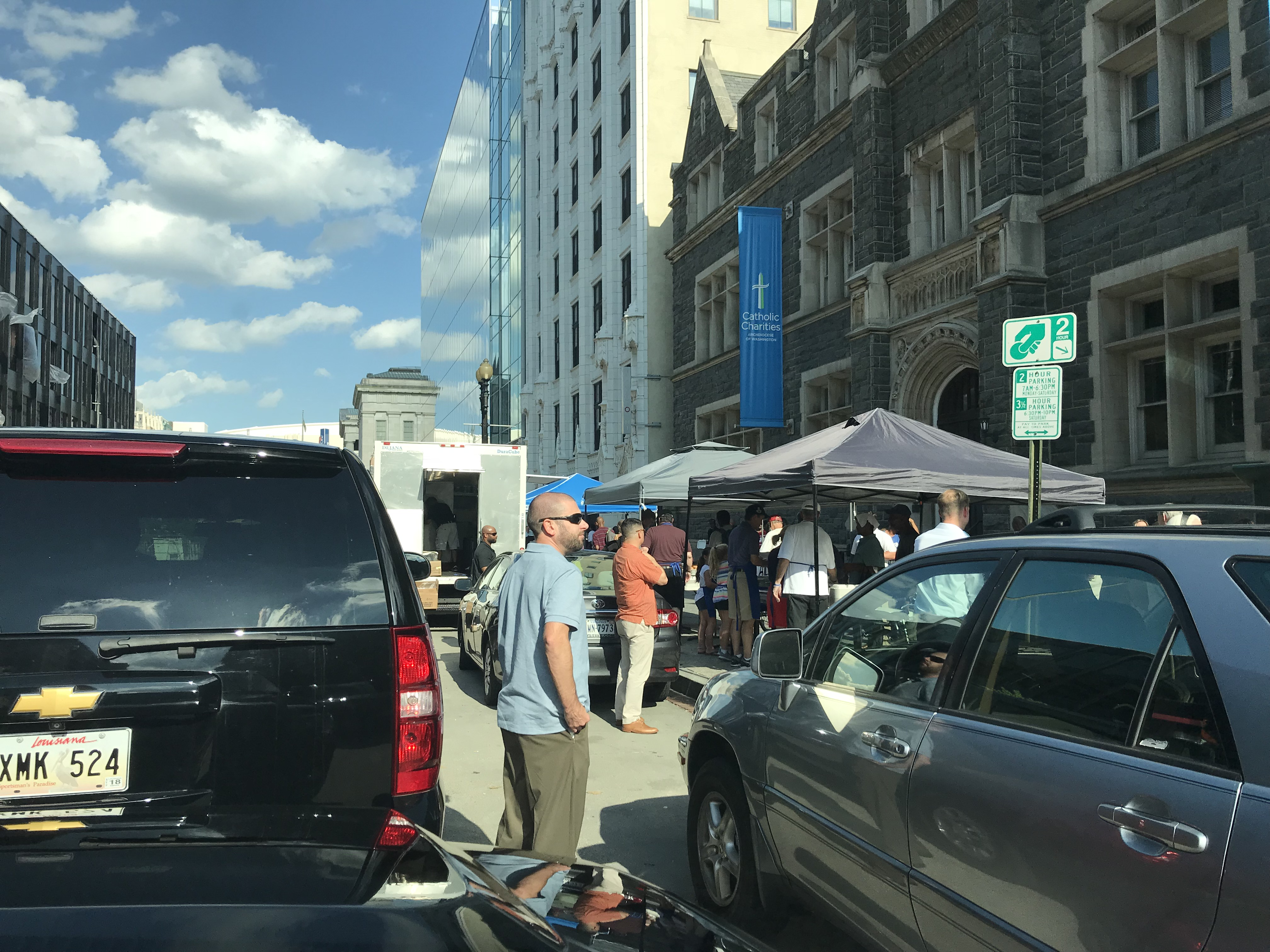 Deputy U.S. Marshals protect then-Judge Brett Kavanaugh at a public service event.